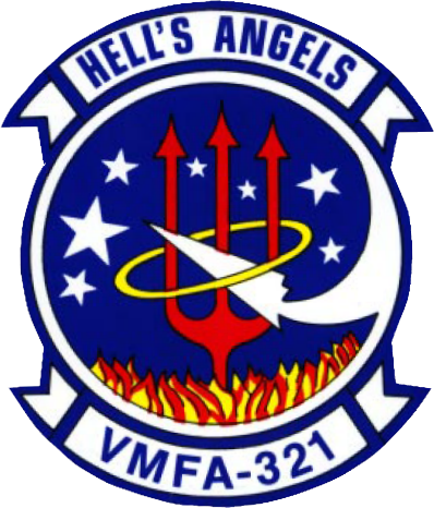 Insignia of the U.S. Marine Corps Marine Fighter Attack Squadron 321 (VMFA-321) "Hell's Angels", in 1998.